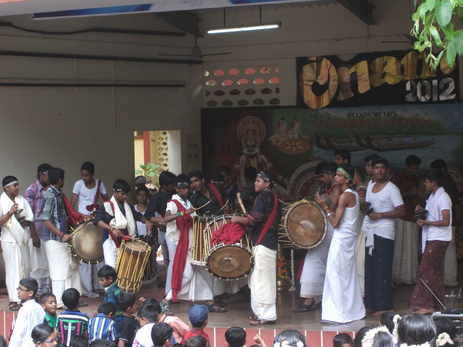 photo of onam celebrations at kv pangode